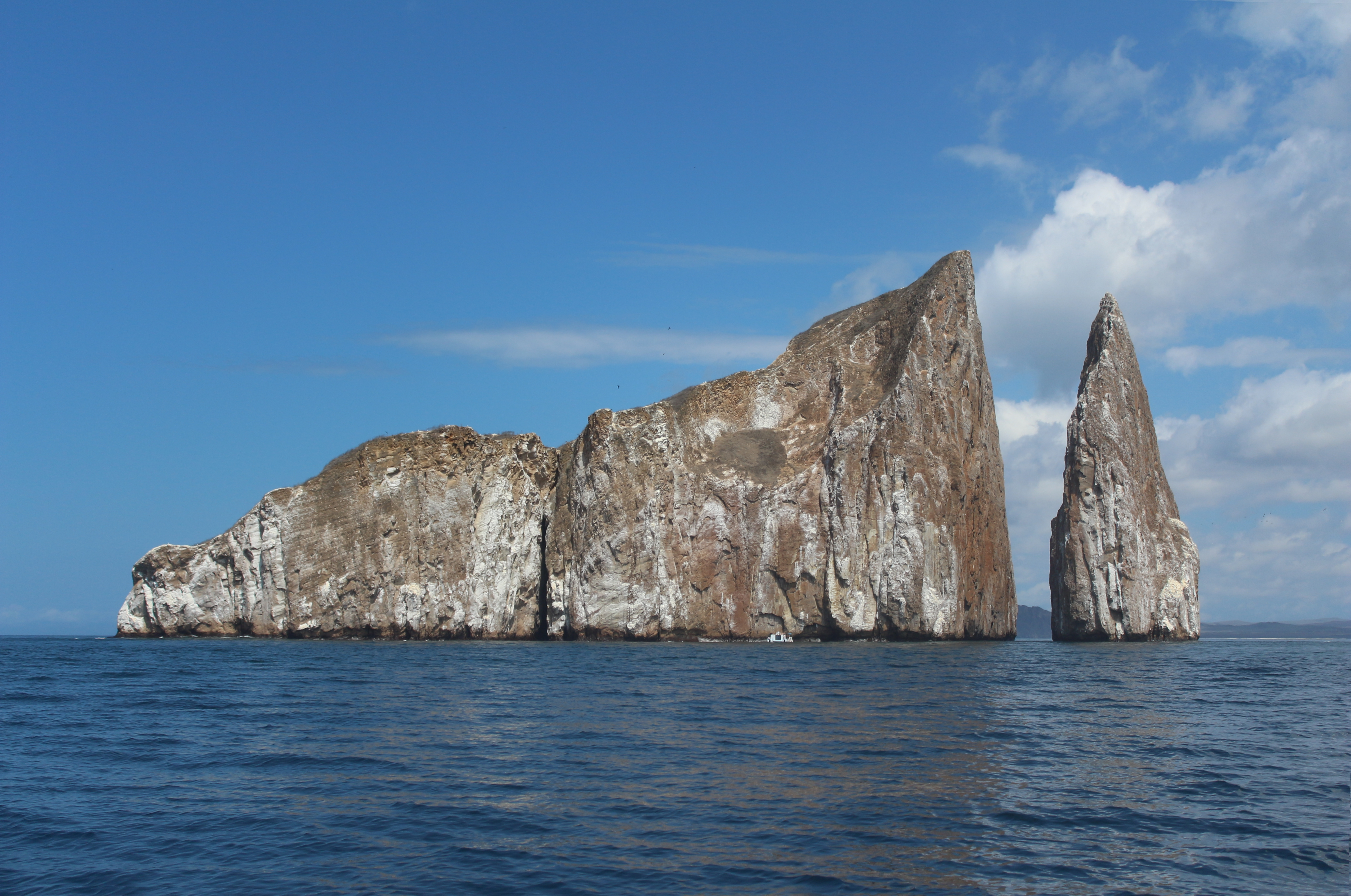 León Dormido (in